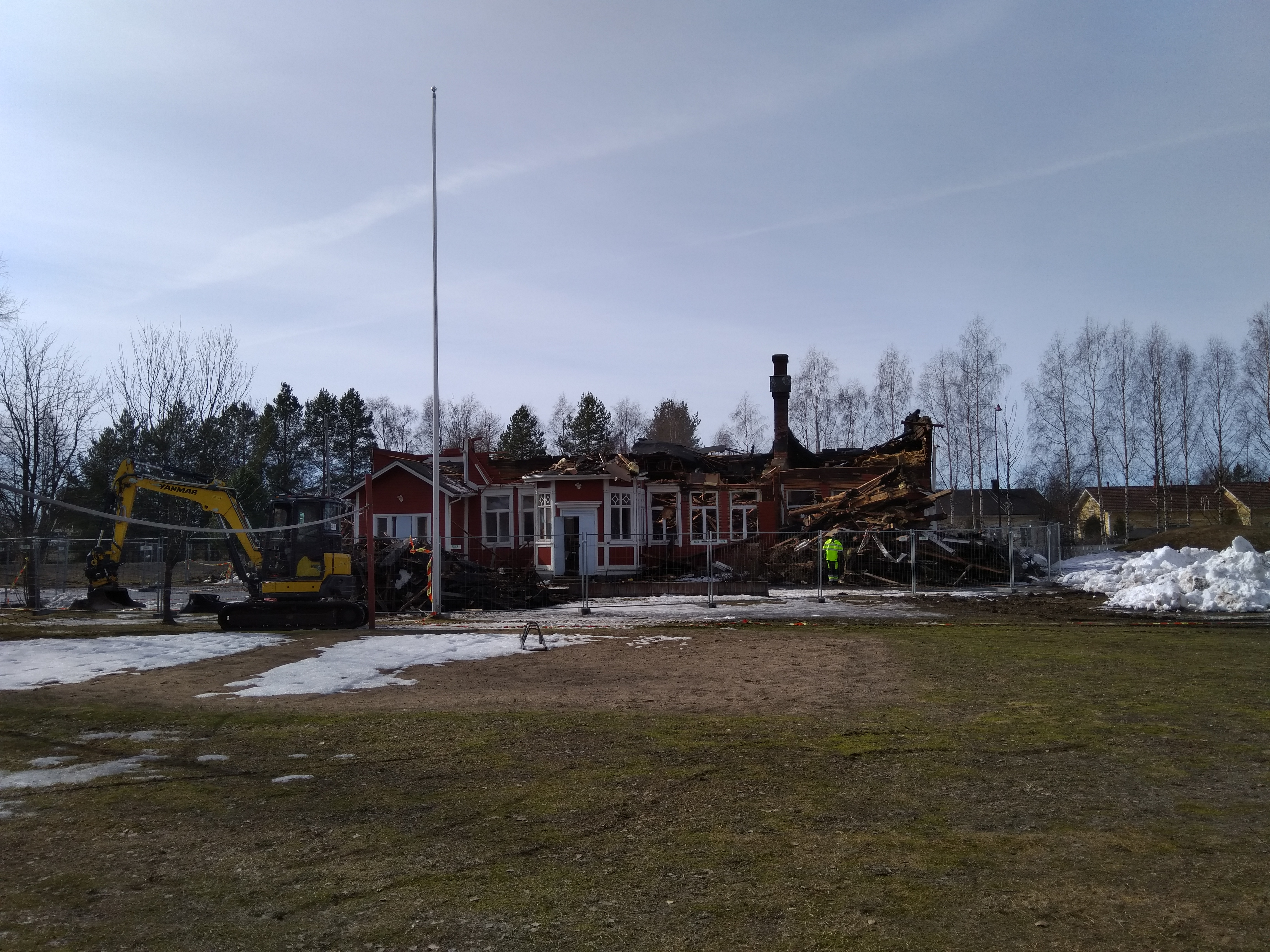 Historic vicarage in Kempele, northern Finland, after fire. This picture was taken on April 17, 2019.